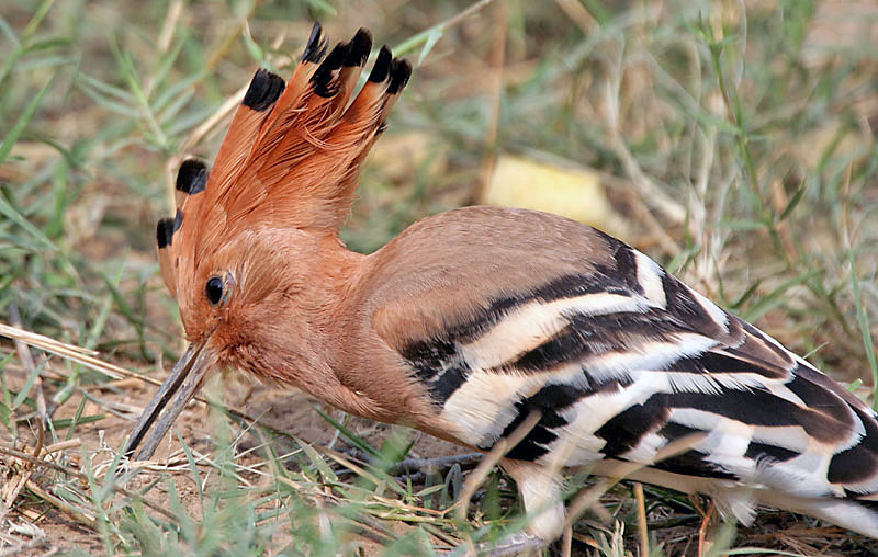 Common Hoopoe Upupa epops at/ near Hodal in Faridabad District of Haryana, India.